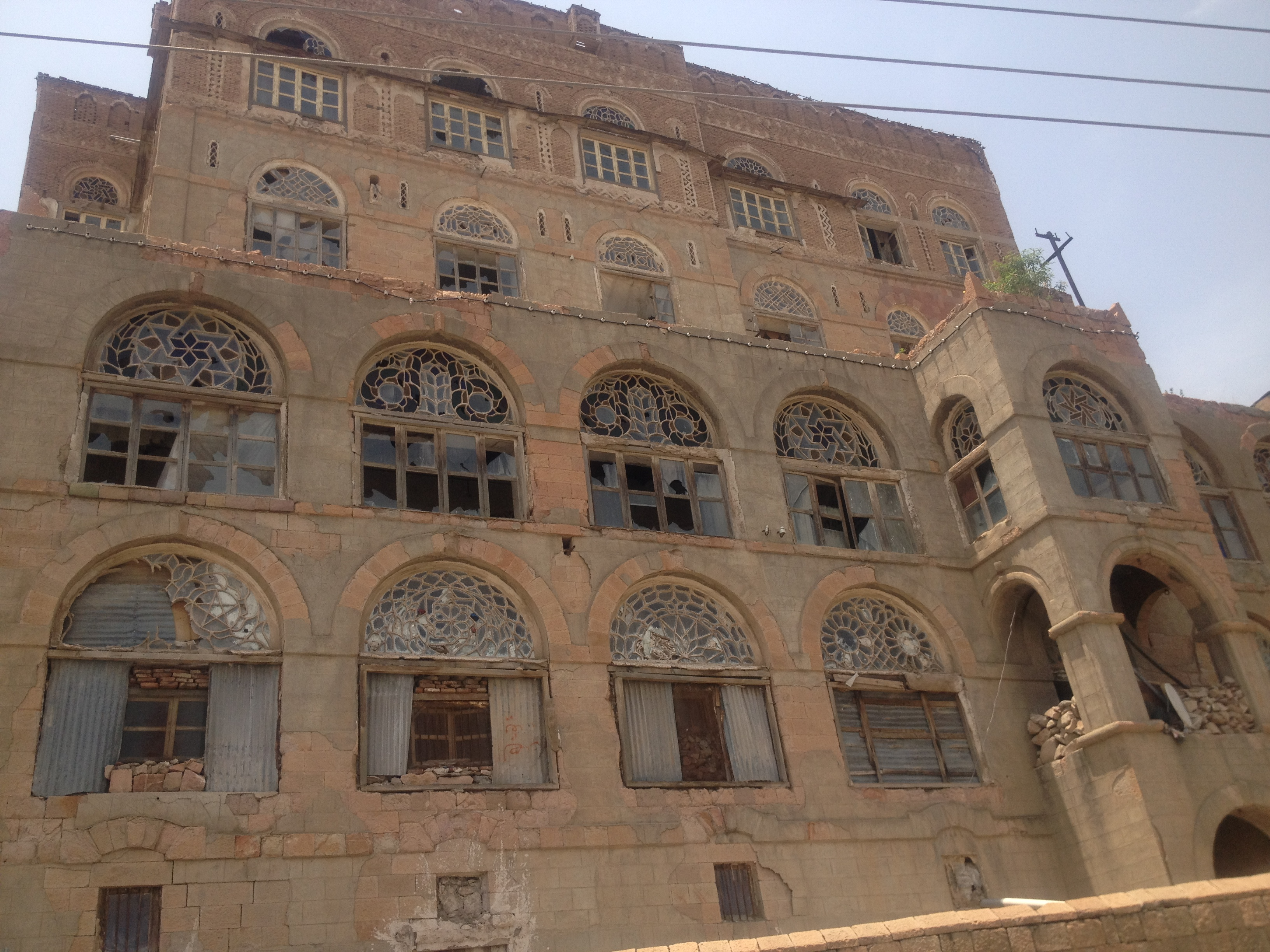 The Palace of Imam Ahmad bin Yahya Hamidaddin in Taiz it is also the national museum of Taiz.